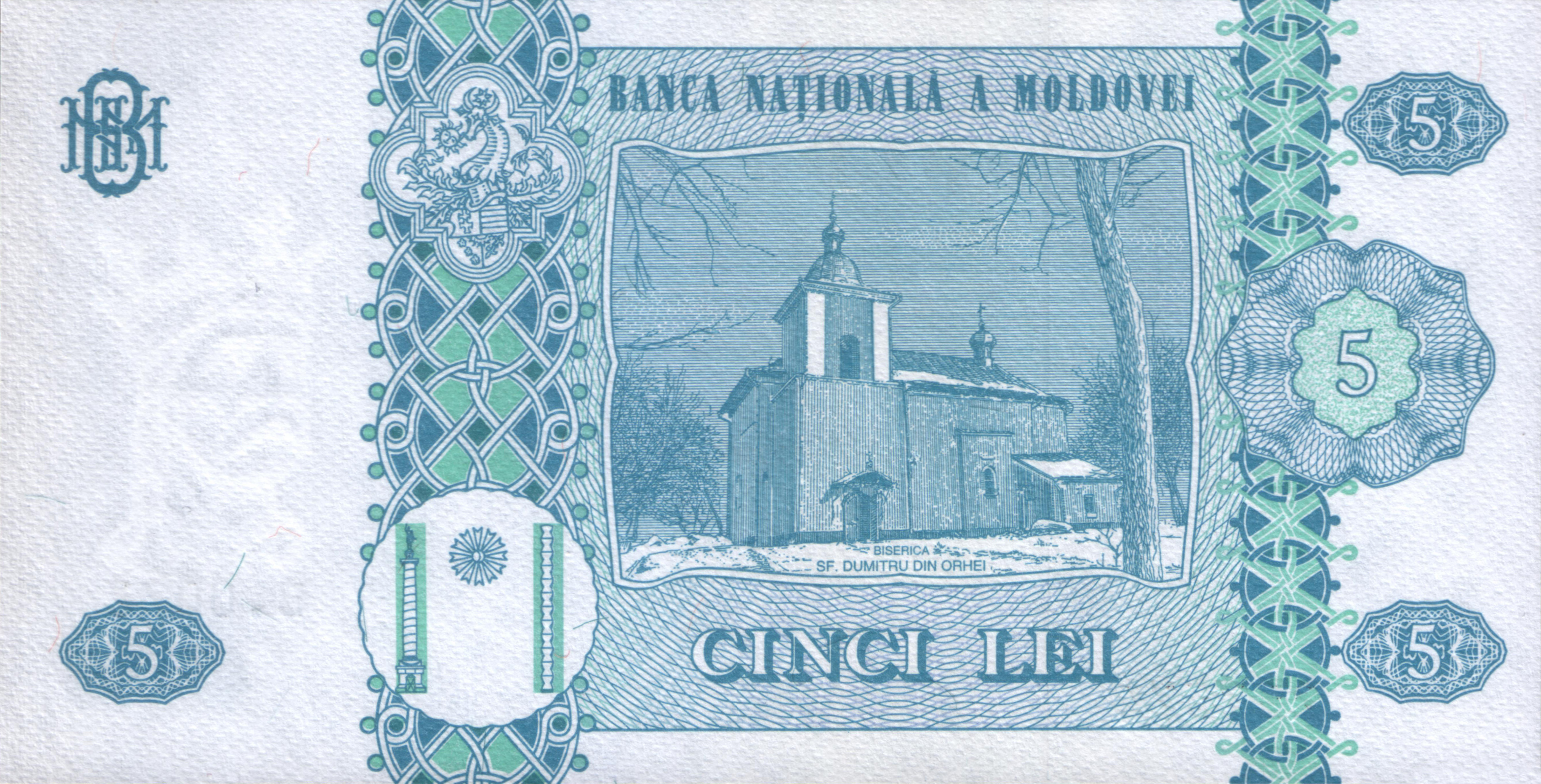 5 lei (1994)